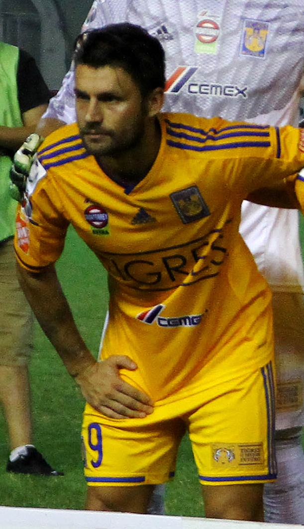 Manta, 19 de may (Andes).-El equipo Tigres de México se enfrenta a Emelec en el partido de ida por los cuartos de finales de la Copa Libertadores, en el estadio Jockay de la ciudad de Manta, ManabíFotos:César Muñoz/Andes Rafael Sóbis